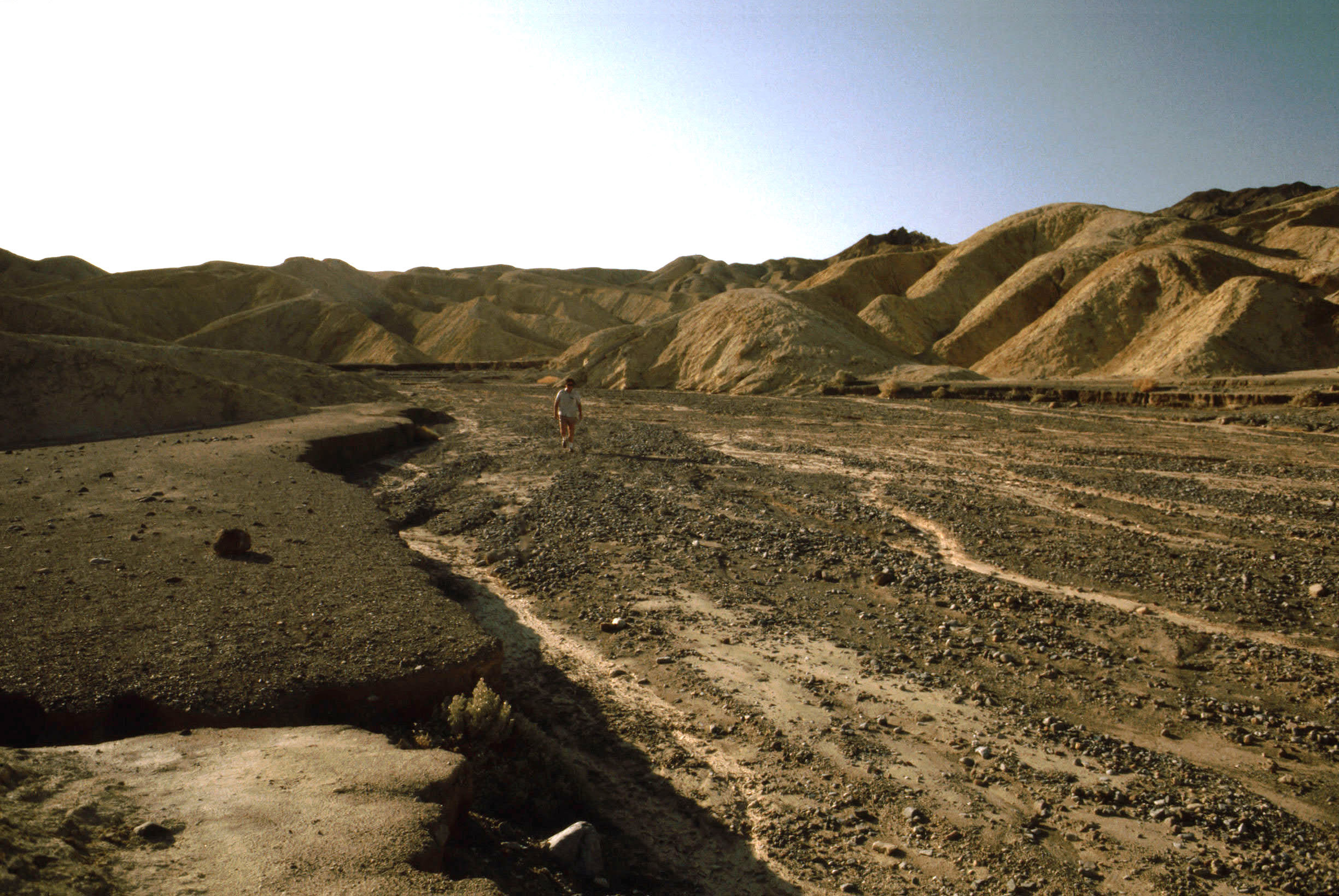 Death Valley,Zabriskie Point,arid Gower Gulch river fludge